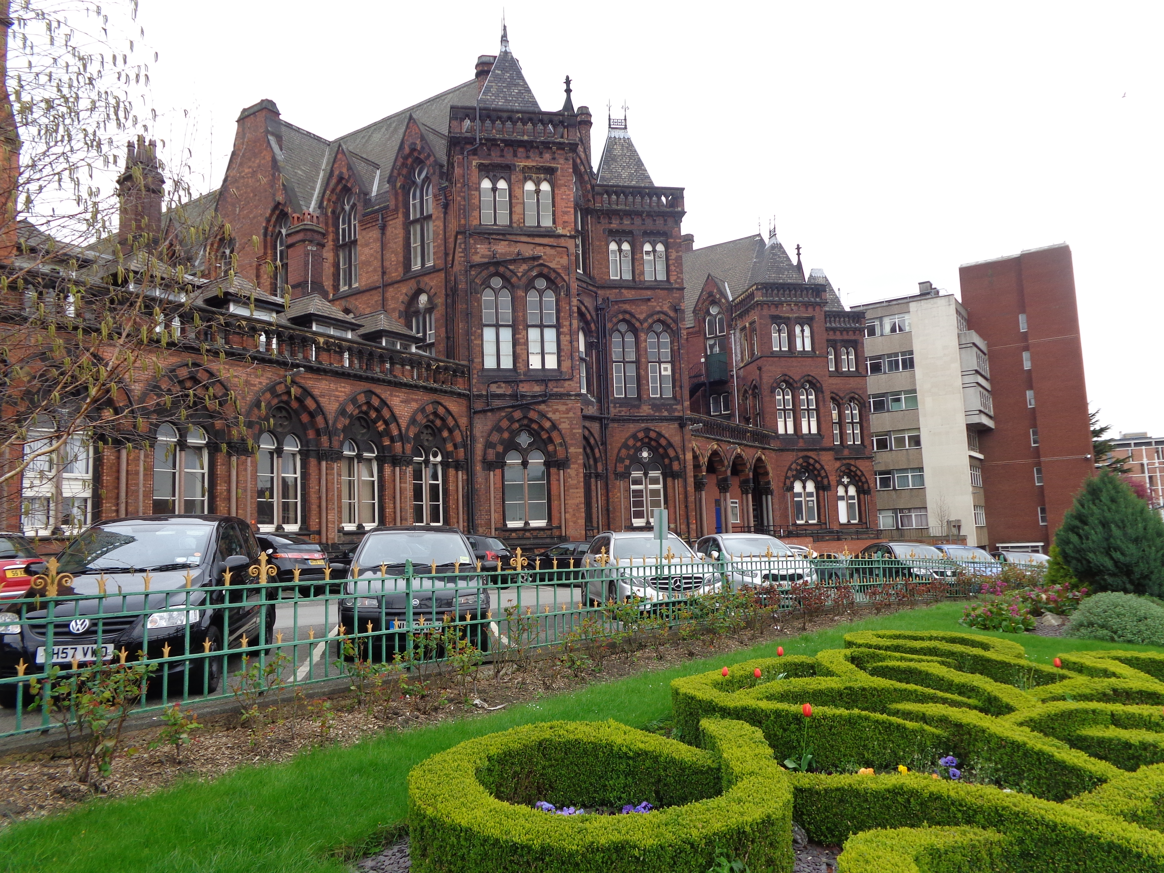 Leeds General Infirmary, Great George Street, Leeds, West Yorkshire. Taken on the afternoon of Saturday the 12th of April 2014.